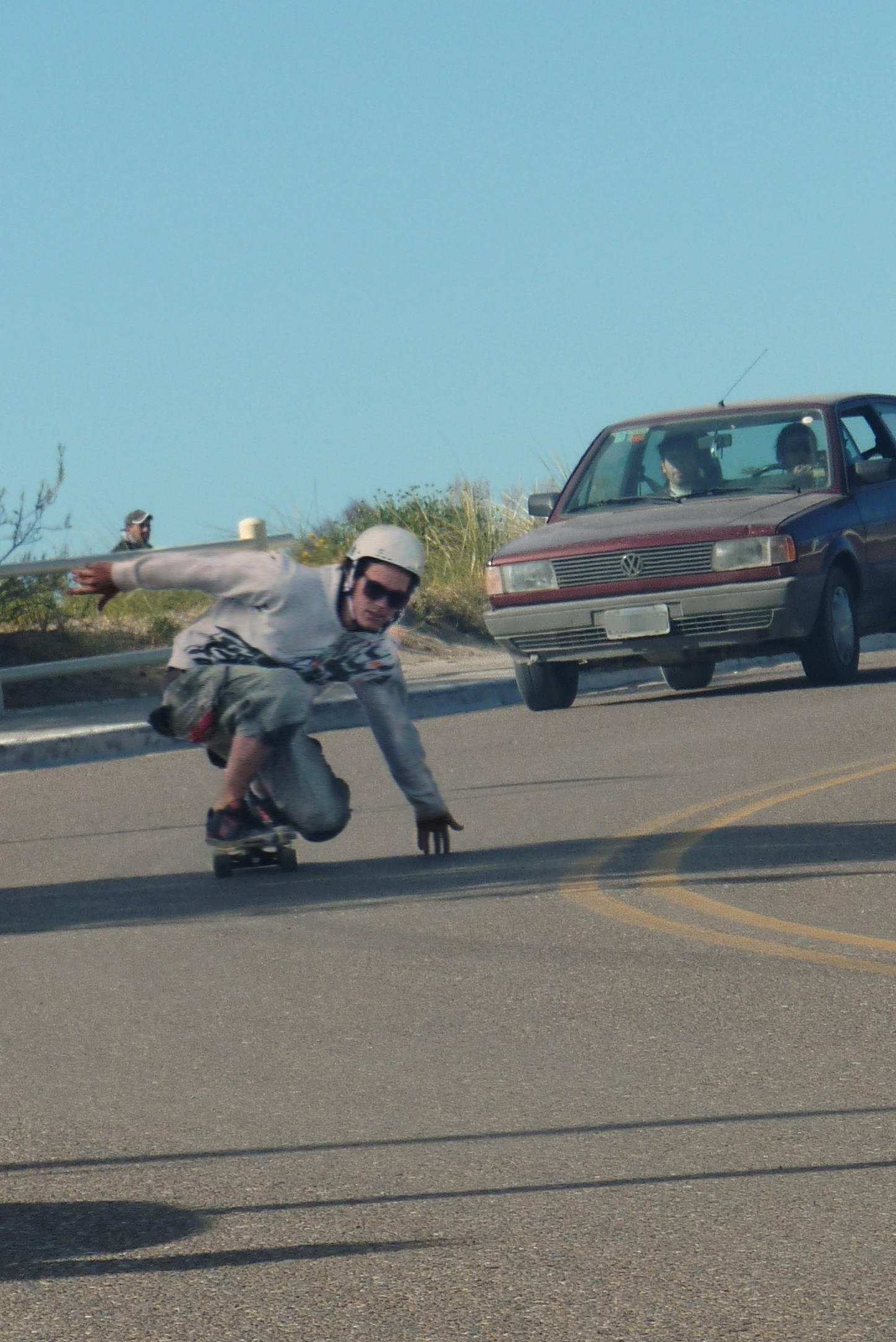 downhill skater near Puerto Madryn, Chubut, Argentina